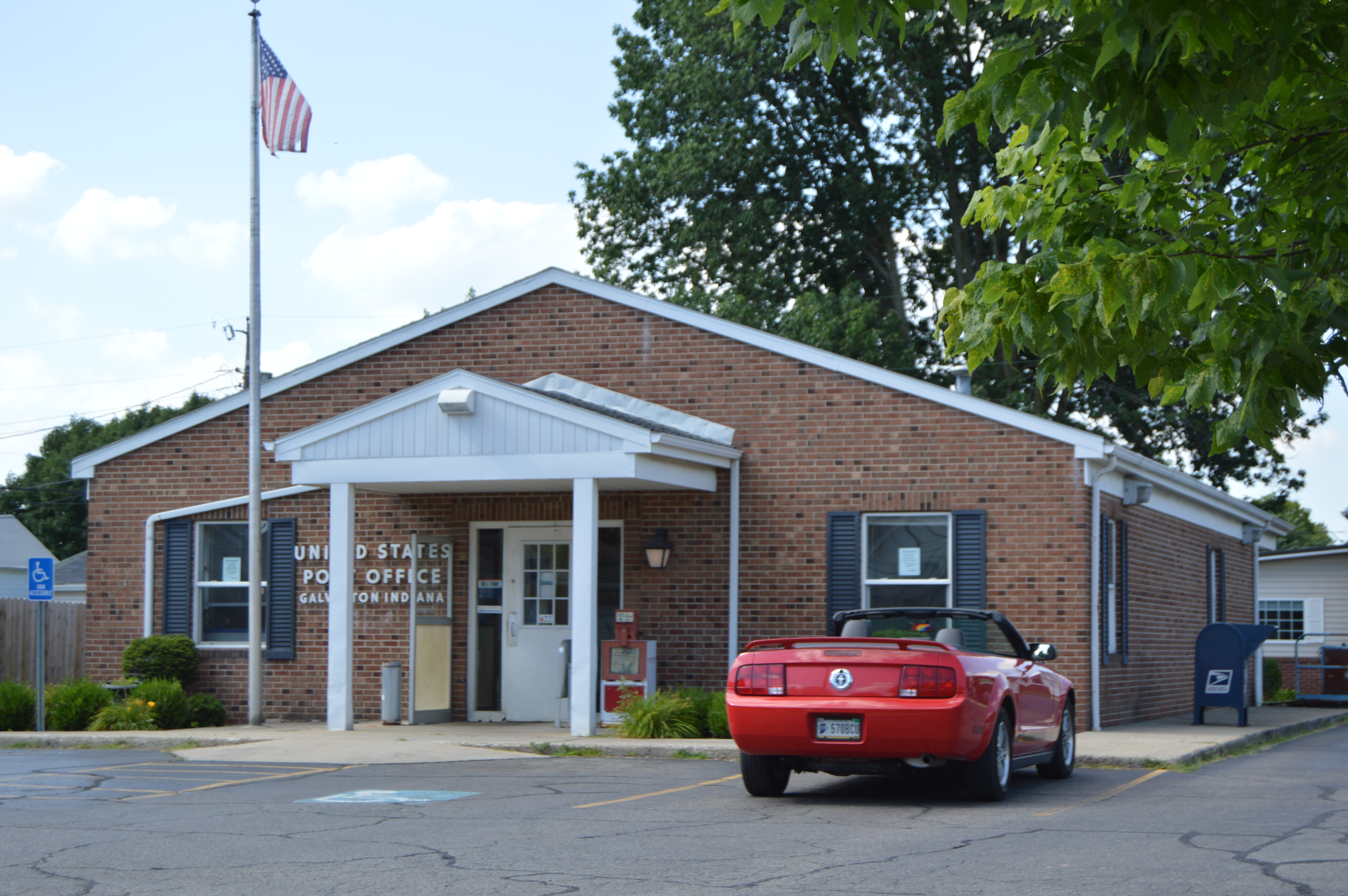 Front of the Galveston post office, located at 102 W. Washington Street at the U.S. Route 35 intersection in Galveston, Indiana, United States.